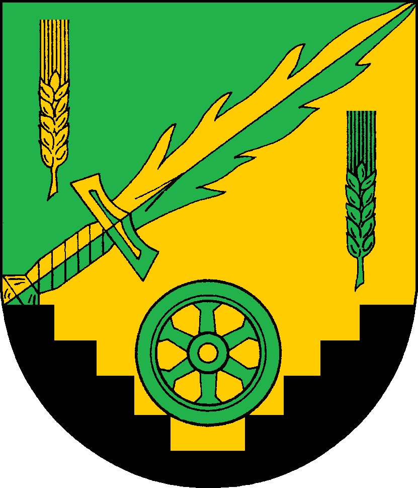 Coat of arms of the municipality Maasbüll in Schleswig-Holstein, Germany.